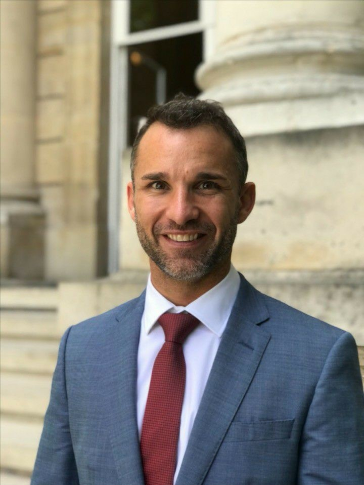 Pictures of Christophe NAEGELEN at the Assemblée Nationale